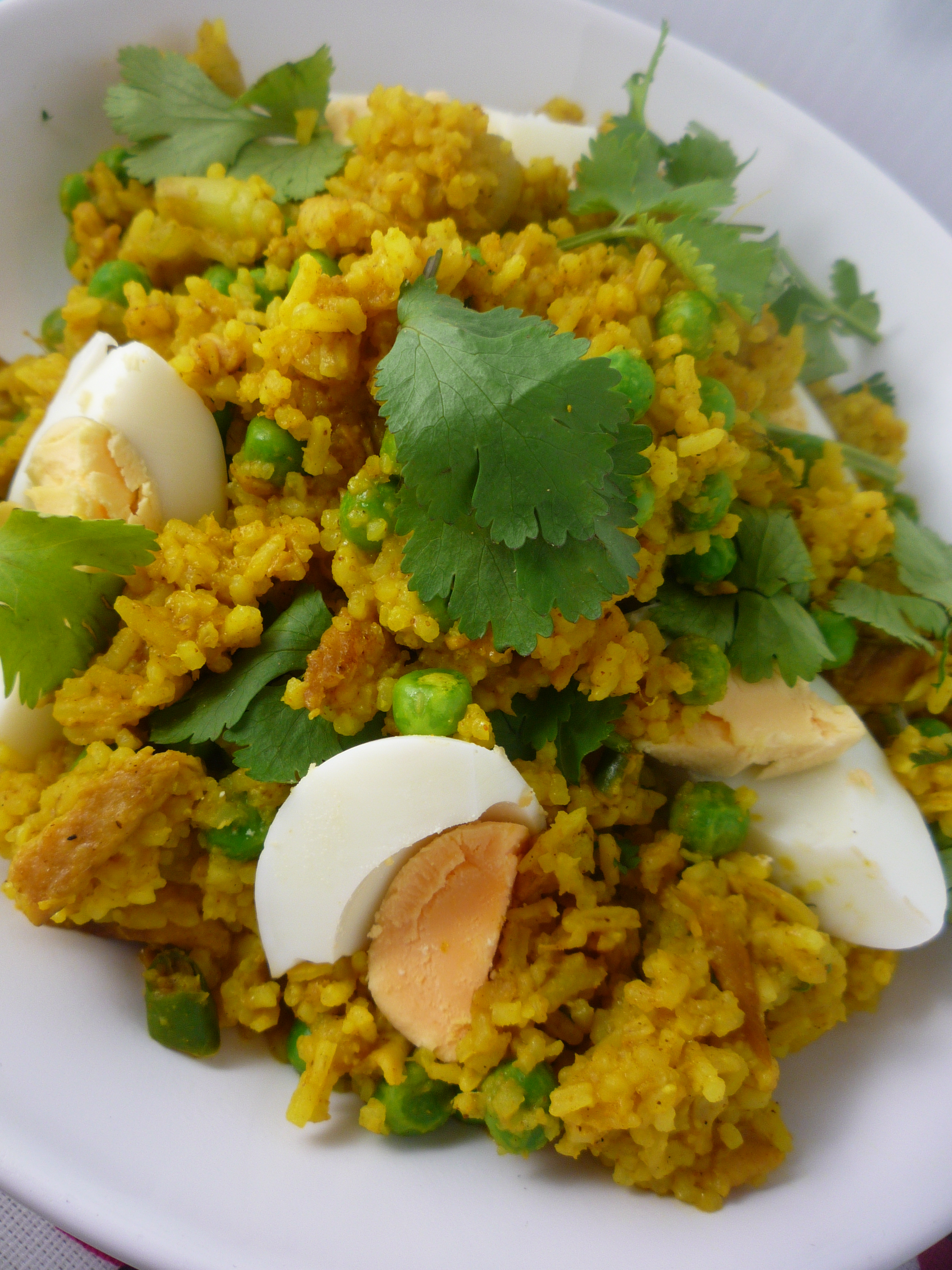 Khichdi is a dish that pre-cooks rice, pulses, veggies and other ingredients. It is a comfort food, often eaten by those recuperating from illness, upset stomach, fever or other injury. Eggs or meat are not commonly added to Khichdi, but sometimes are. In UK, these are known as Kedgeree. Rice is common, but other grains are sometimes substituted. Pongal is another related dish with similar preparation technique.